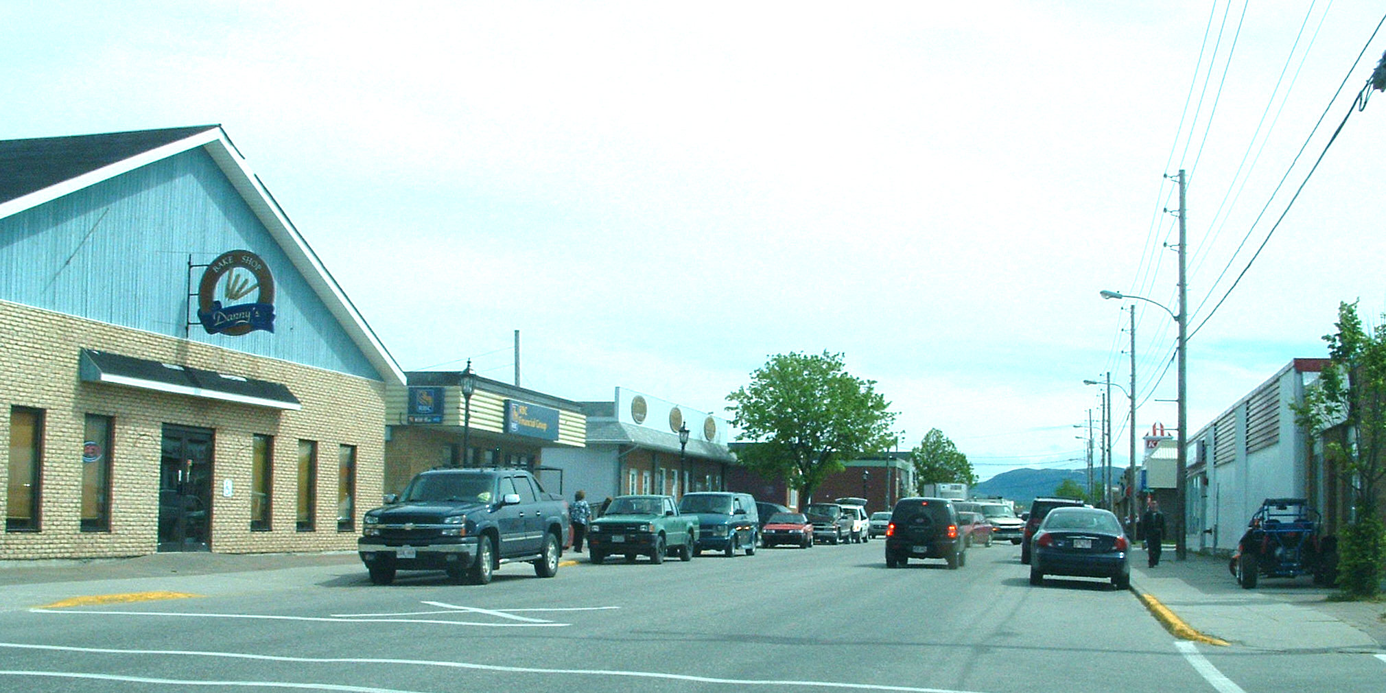 View of Main Street, Stephenville, Newfoundland & Labrador